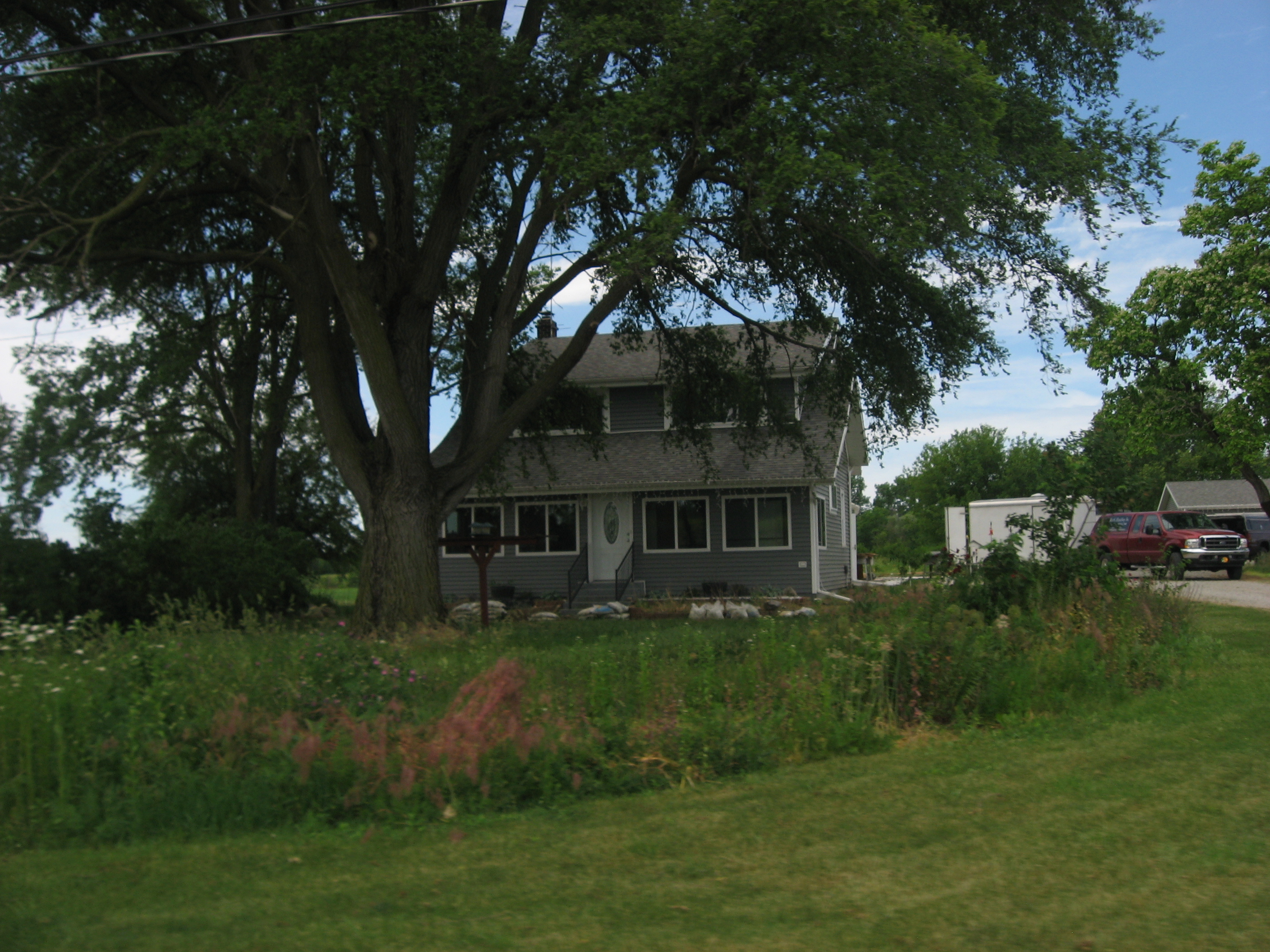 Front of the Rakestraw House, located at 4416 County Road 19 northeast of Garrett in Keyser Township, DeKalb County, Indiana, United States. Built in 1915, it is listed on the National Register of Historic Places.